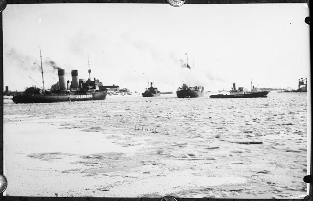 Finnish icebreaker Jääkarhu with other ships